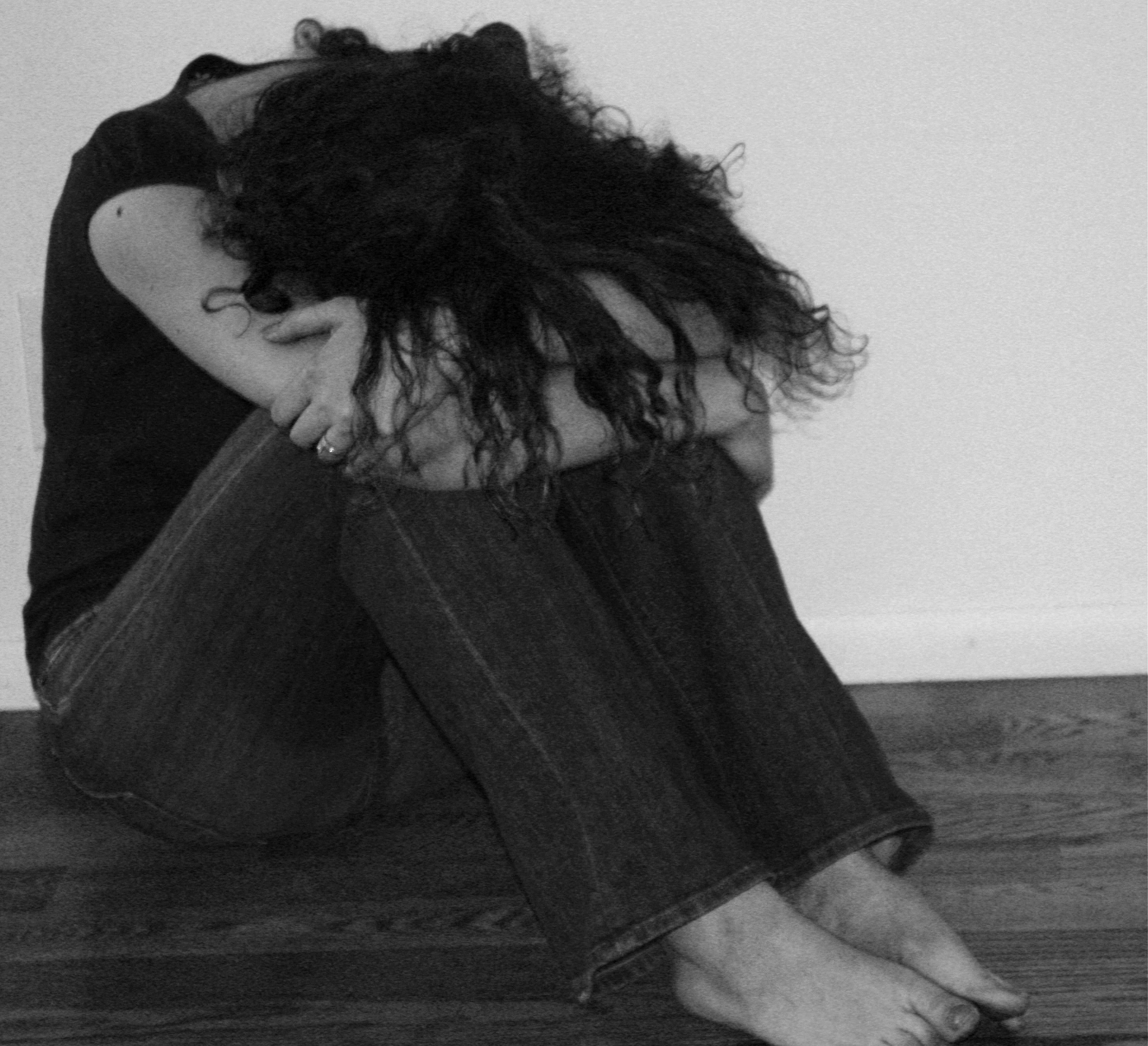 Rumination is characterized by brooding tendencies which oftentimes lead to depression.